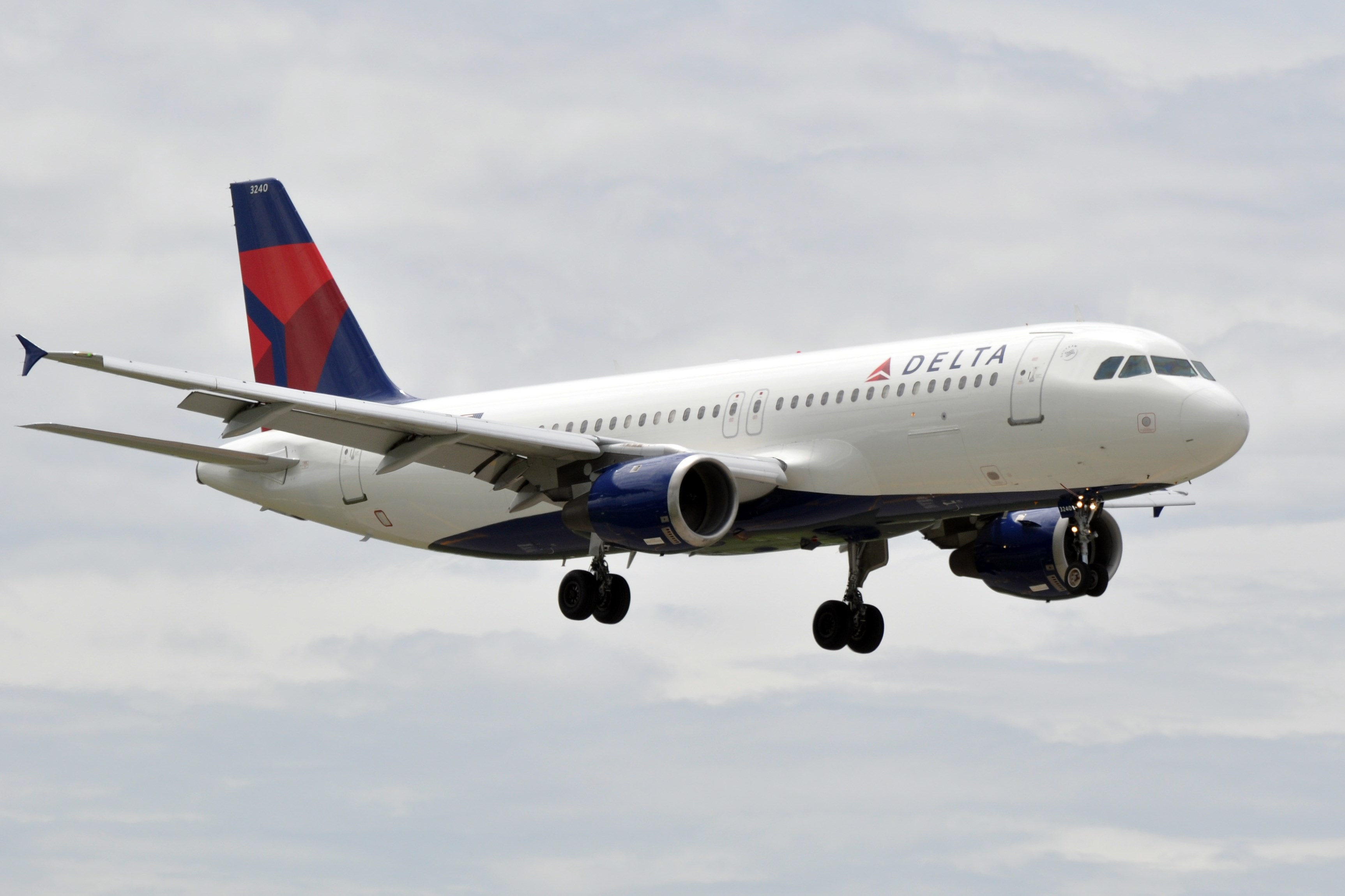 Airbus A320-211 of Delta Air Lines on approach at Miami Airport. Other photographs in this sequence : File:N340NW (15493379776).jpg